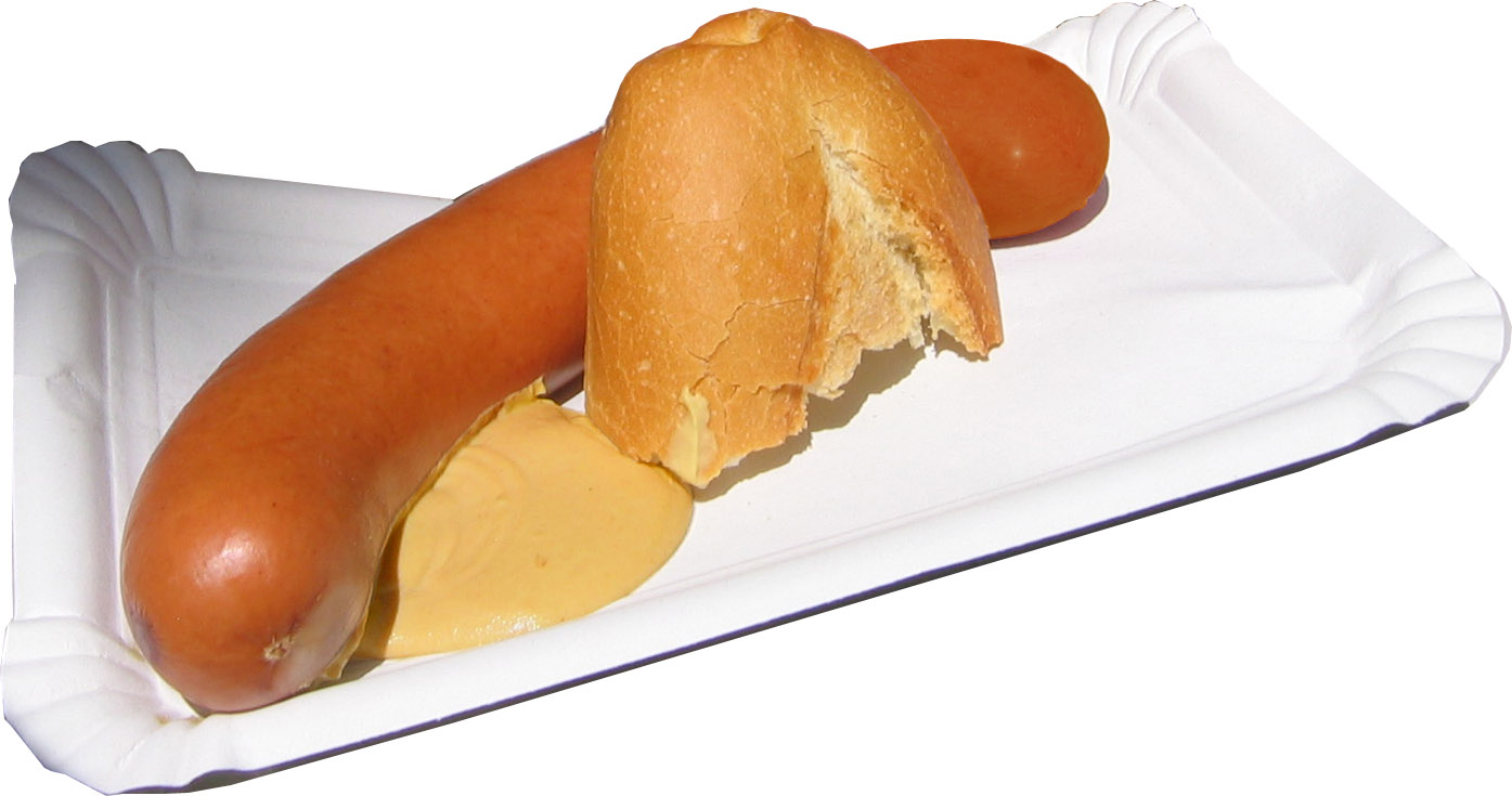 Hot dog with mustard